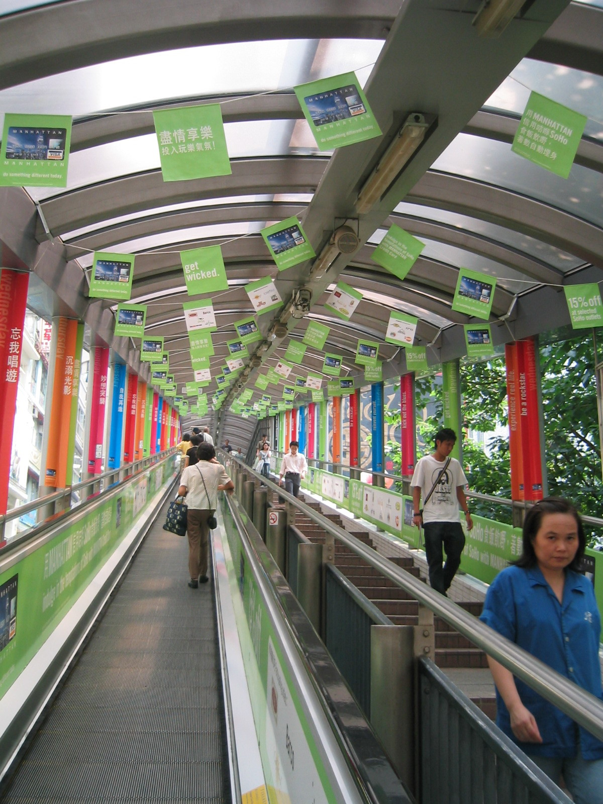 Central-Mid-Levels escalators, Central, Hong Kong